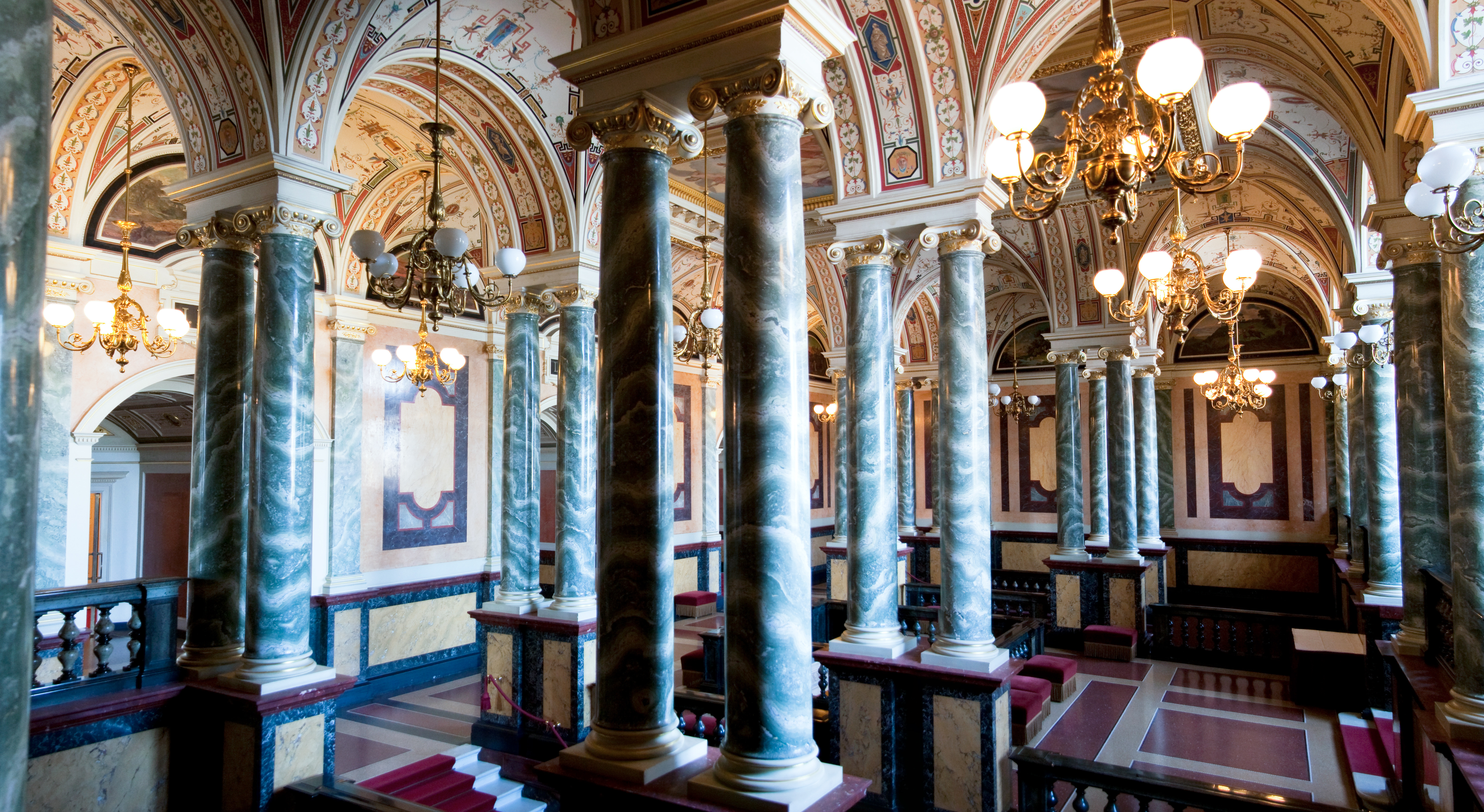 Interior of the Semperoper in Dresden. 51°3′16.3″N 13°44′6.5″E / 51.054528°N 13.735139°E